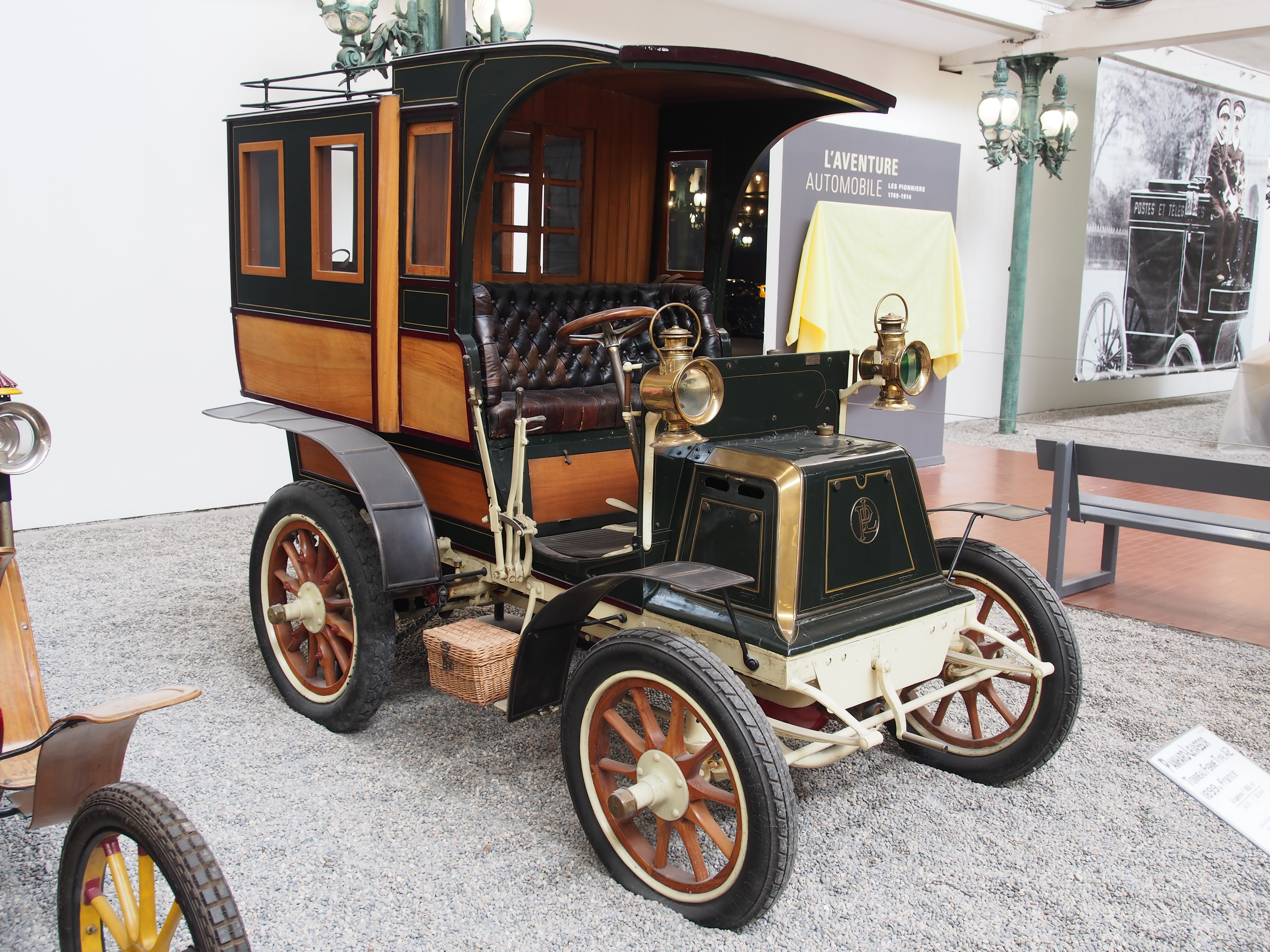 Photographed at the Cité de l'Automobile, France.